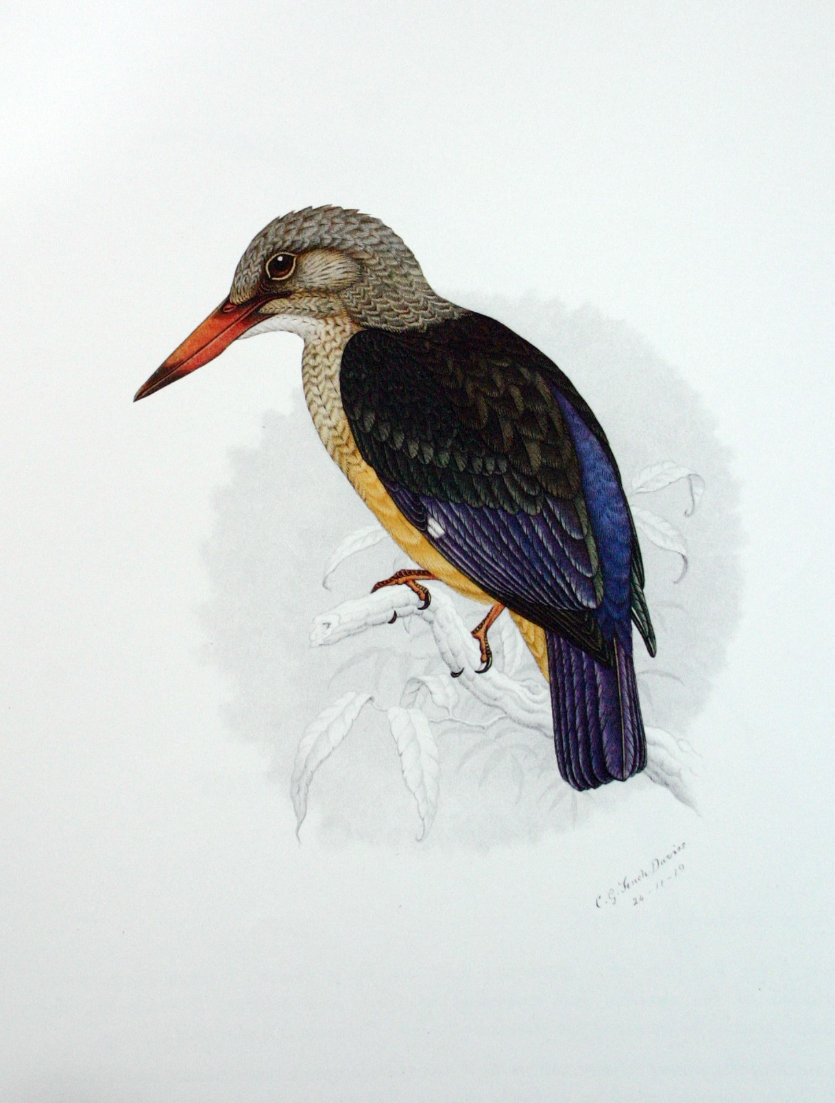 Grey-headed Kingfisher Halcyon leucocephala (juvenile male)